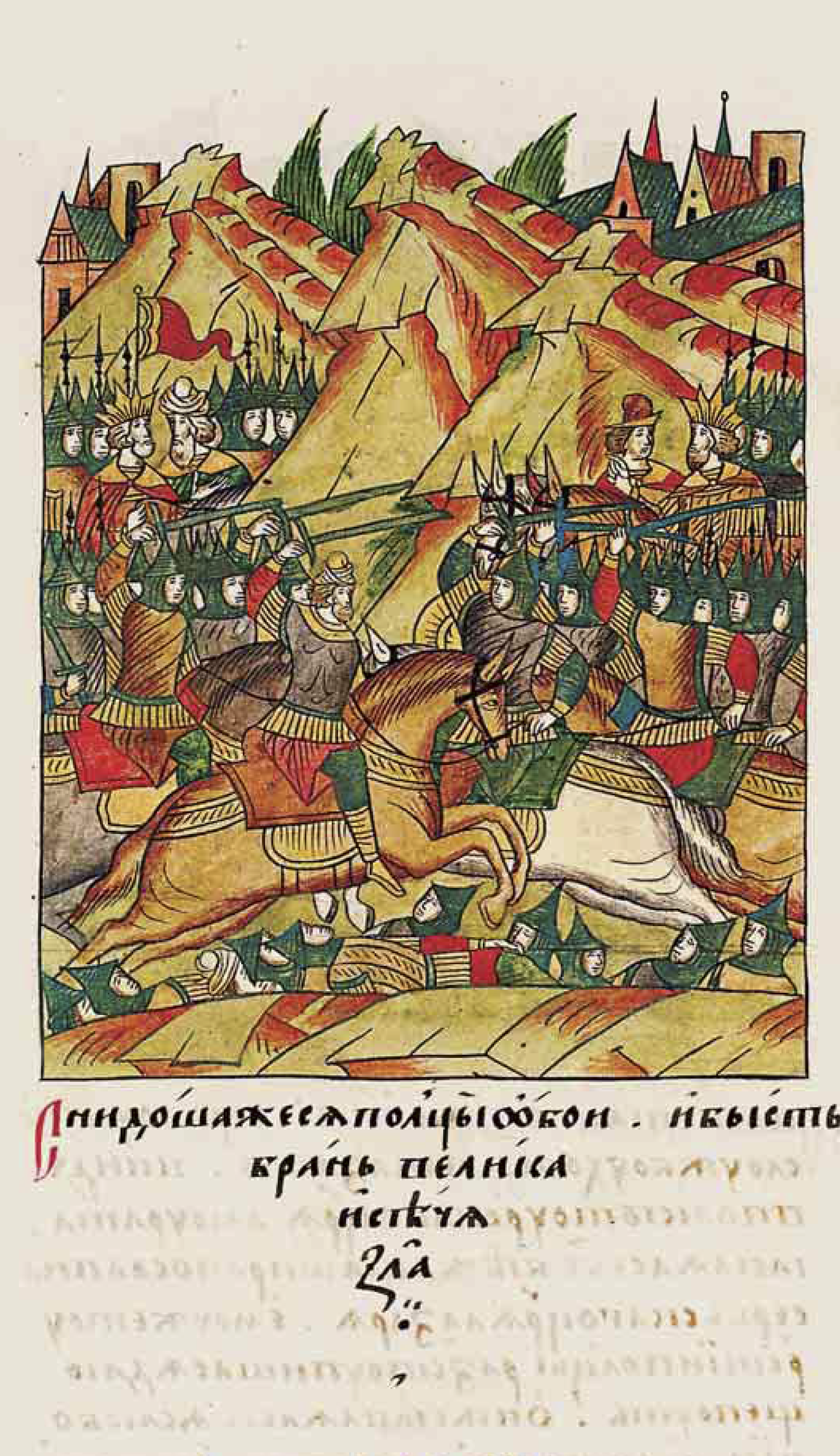 Battle of Kosovo 1389, old Russian miniature (Facial chronicle of Ivan IV.)